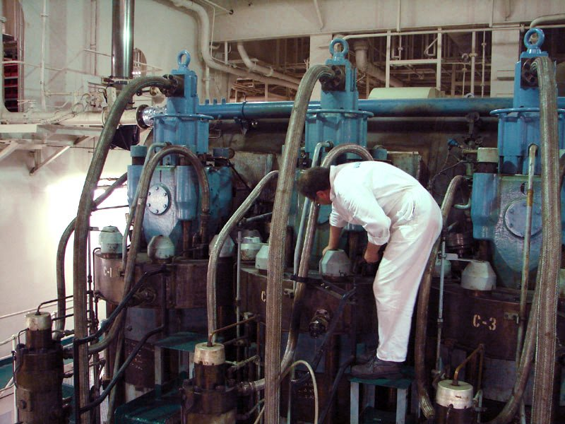 Main engine of the VLCC Algarve : Man B&W, 25 800 kW, 7 cylindres